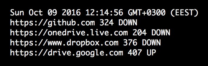 Confirmed: Major Open Source infrastructure site @Github blocked in #Turkey 12:14PM to suppress #Redhack mail leak